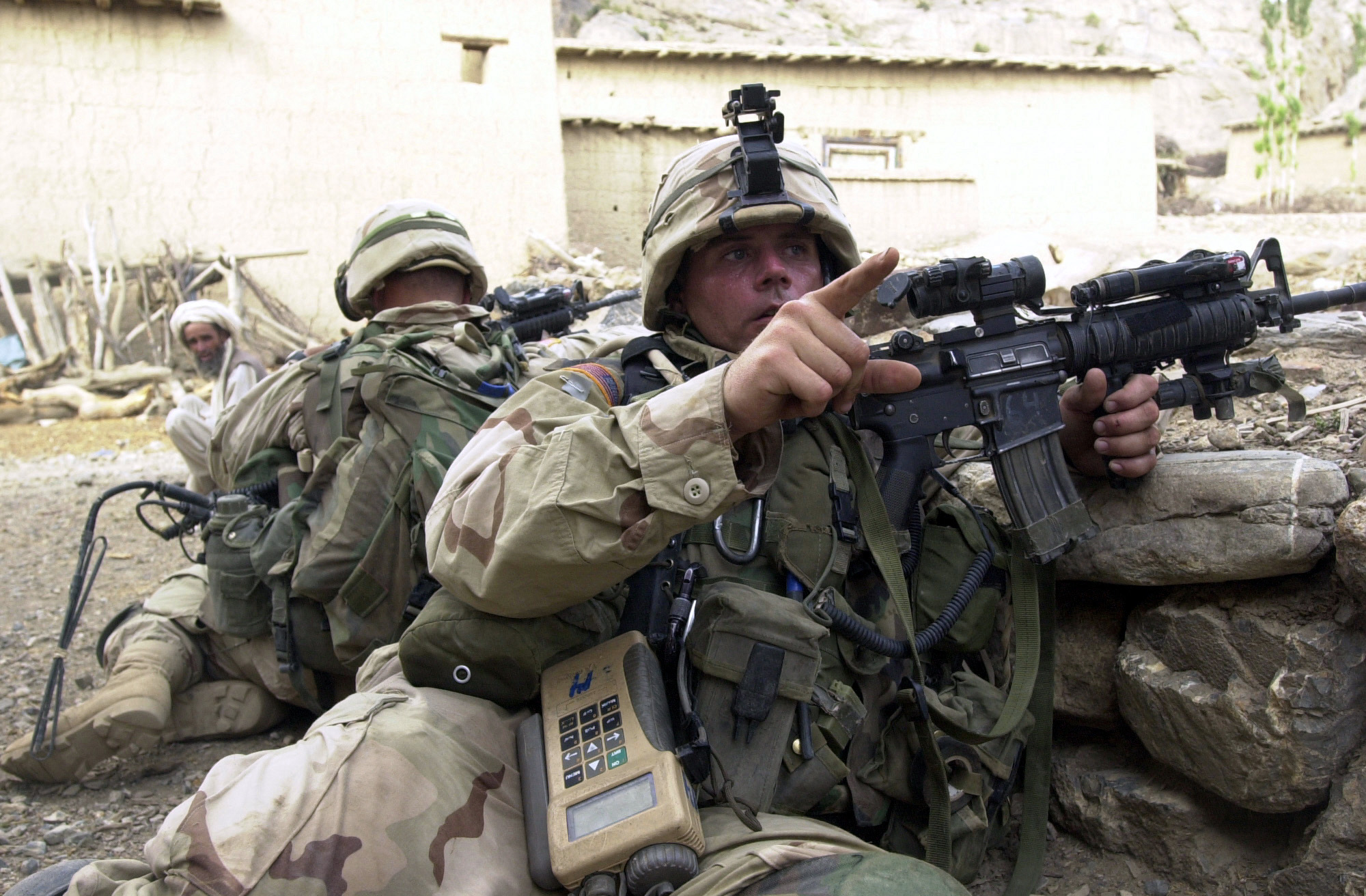 Sgt. Brandon Cross, 3-505th Infantry, directs Soldiers to take up a defensive positions, as they arrive in the town of Gangikhel, located in Malikasay, Afghanistan, during a mission to seek out enemy forces and locate weapon cache's, during Operation Enduring Freedom. U.S. Army Photo by Sgt. Sean A. Terry.